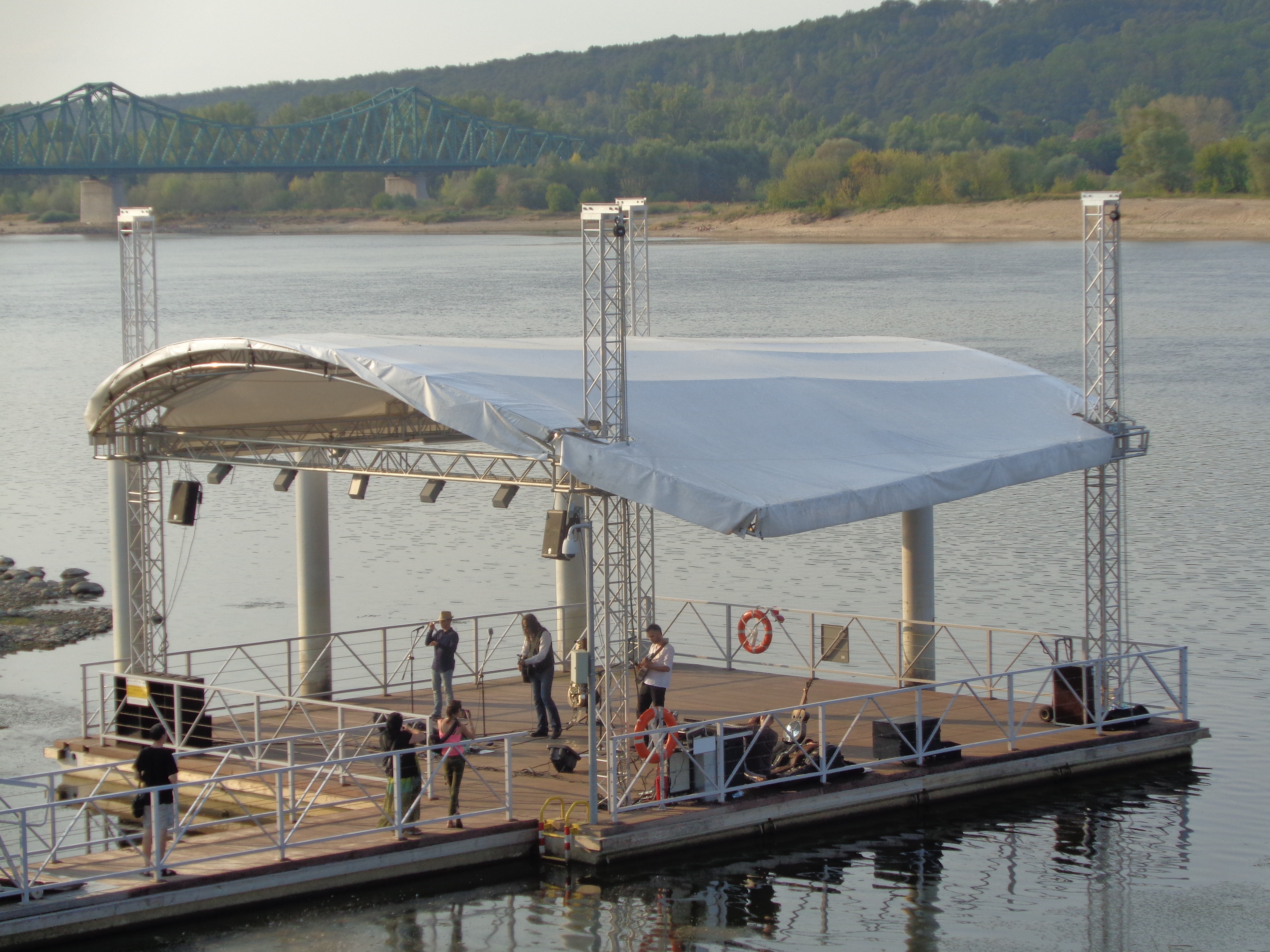 Concert of Willie Mae Unit group on Scene on the Wisła river in Włocławek.